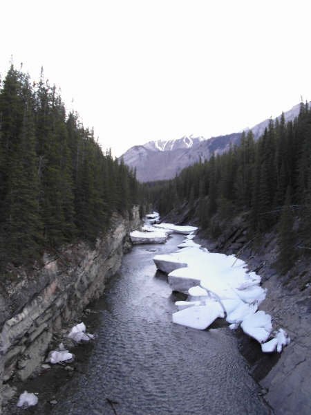 CascadeRiver - Author Erik Lizee - Author